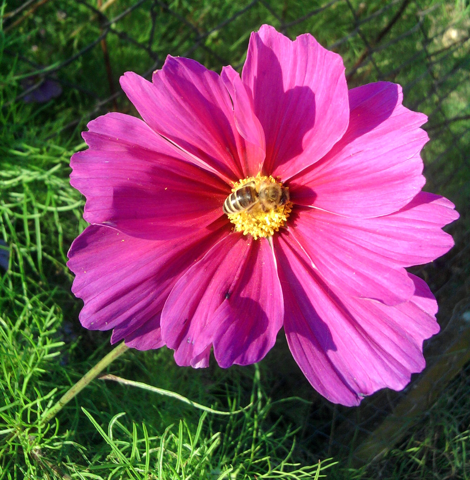 Bee on the flower